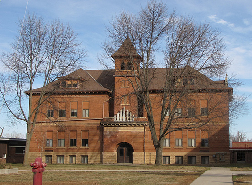 The Tyler Minnesota Public School. On the National Register of Historic Places.